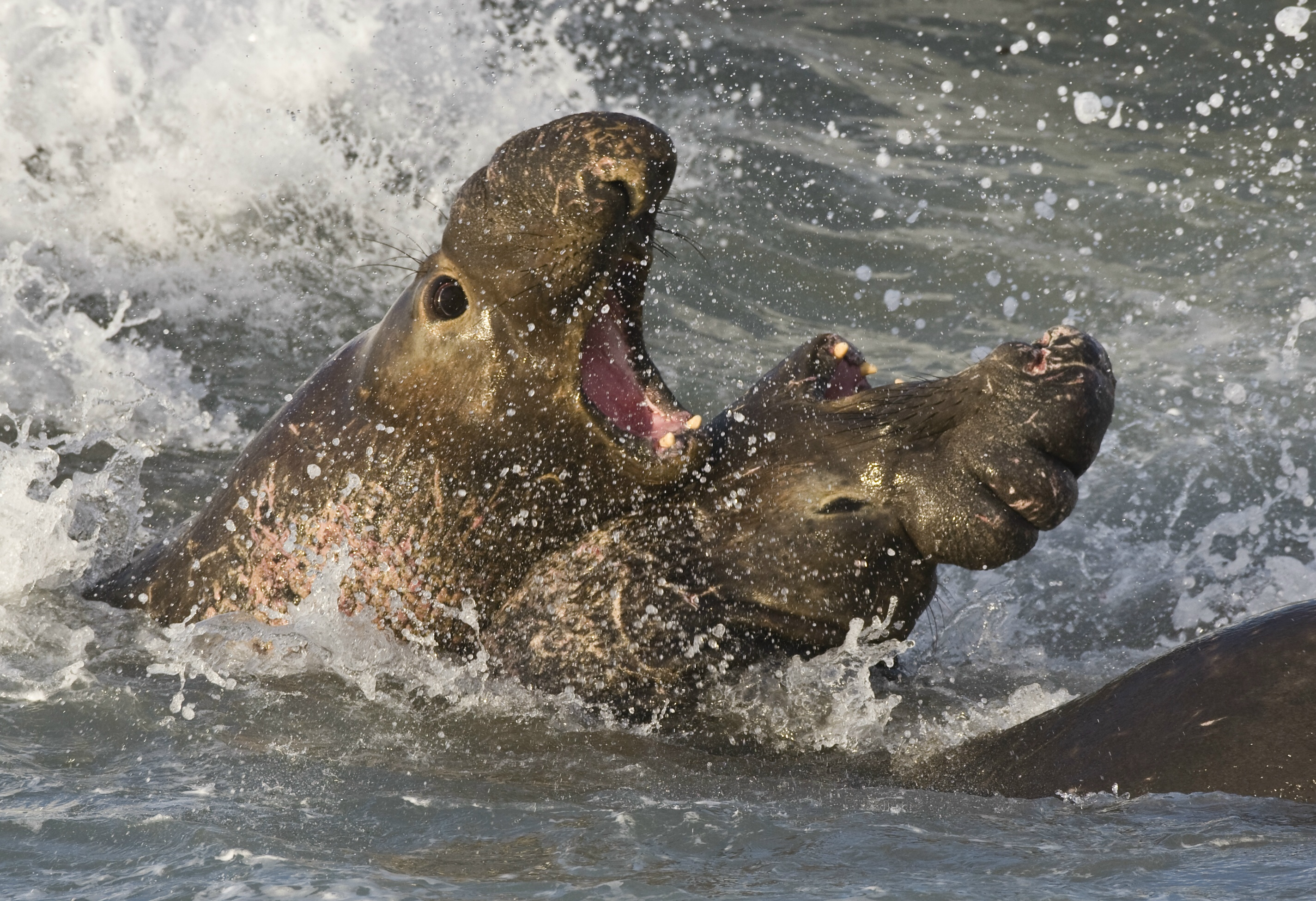 Male Northern Elephant Seals fighting for territory and mates, Piedras Blancas, San Simeon, California (USA).